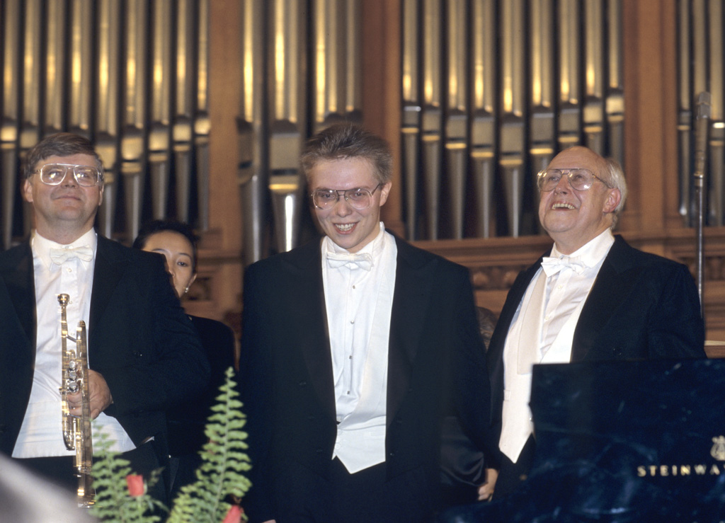 “Pianist Ignat Solzhenitsyn and conductor and cellist Mstislav Rostropovich”. Pianist Ignat Solzhenitsyn (centre) son of the author Alexander Solzhenitsyn, and conductor and cellist Mstislav Rostropovich (right), on the American National Symphonic Orchestra tour of Moscow and St Petersburg. The tour ran from September 22 to October 1 1993.